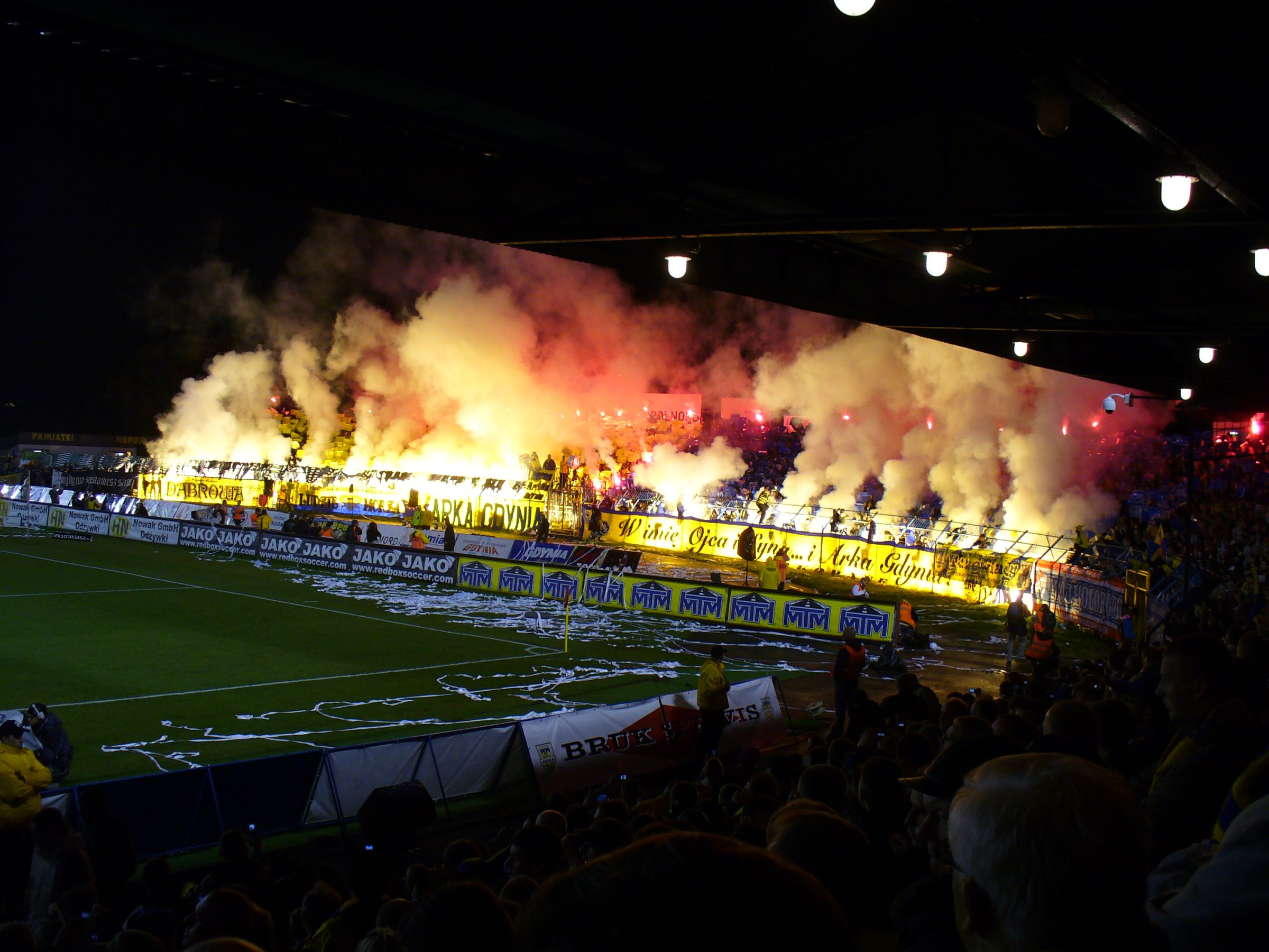 Poland, stadium GOSiR in Gdynia